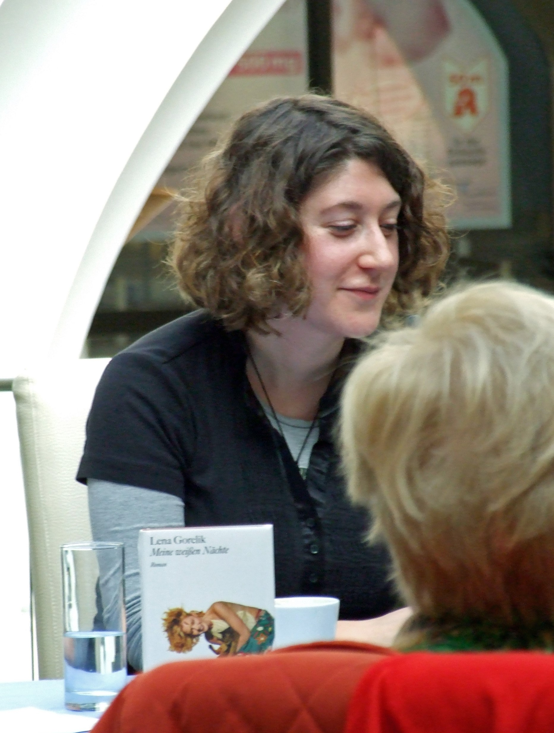 Lena Gorelik in Frankfurt am Main